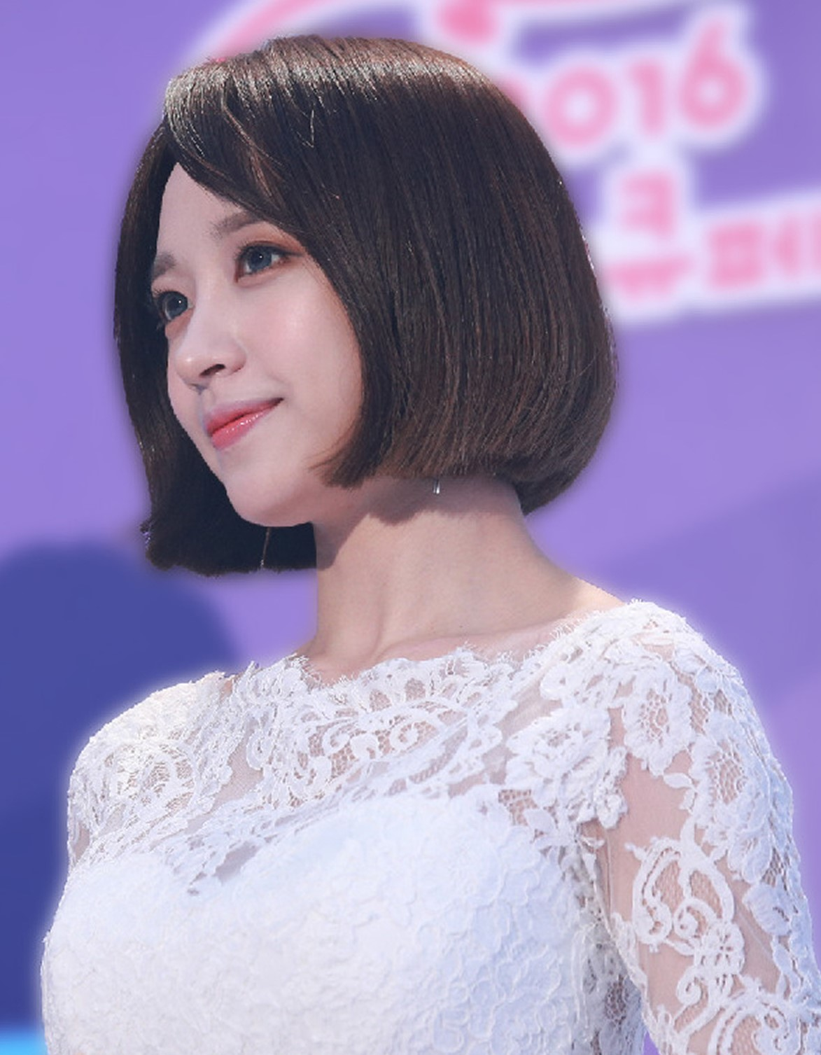 Hani at the Thank U Festival June 18, 2016.